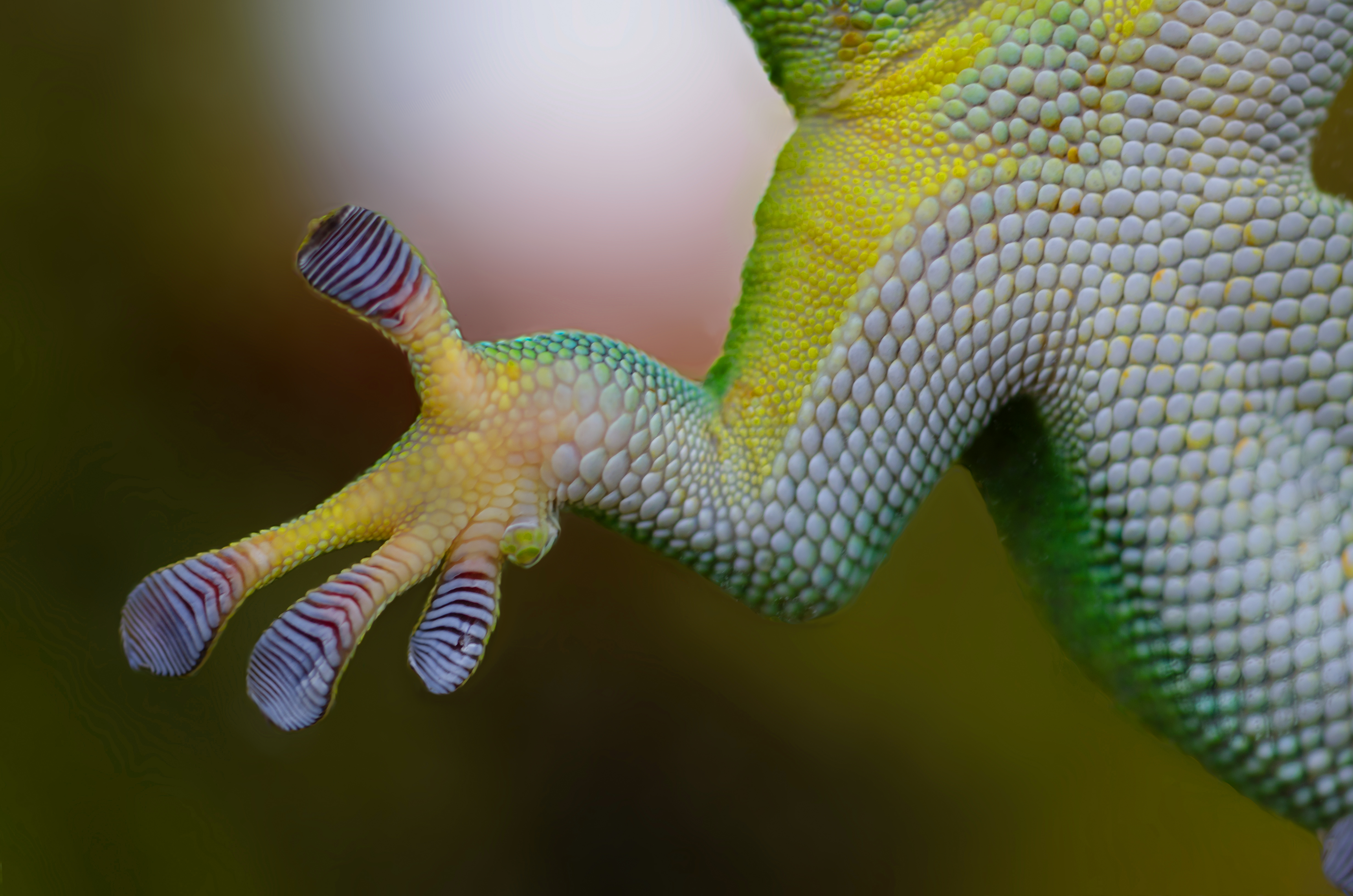 A gecko setae.